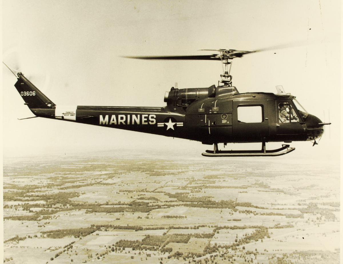 Bell HU-1B turbine with Marine Corps markings.